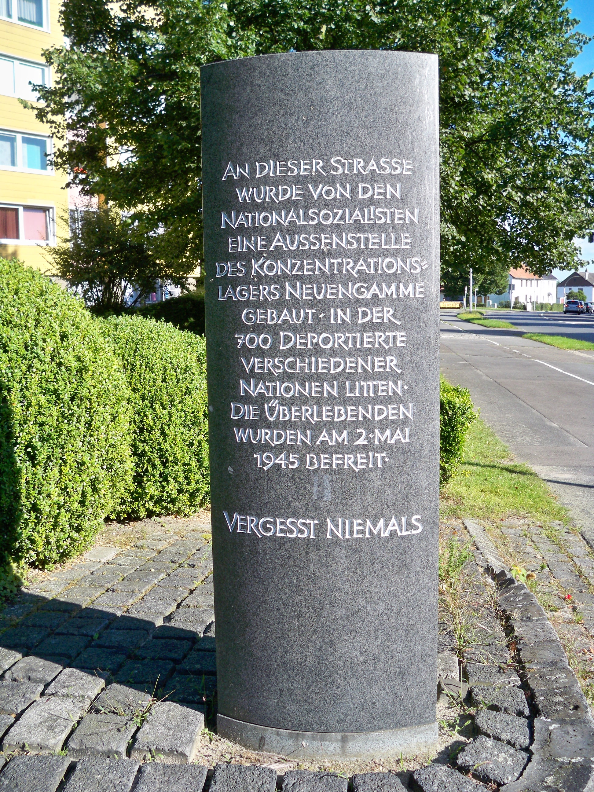 Wolfsburg, Lower Saxony, monument for captives in KZ-Außenlager Laagberg, at Breslauer Straße